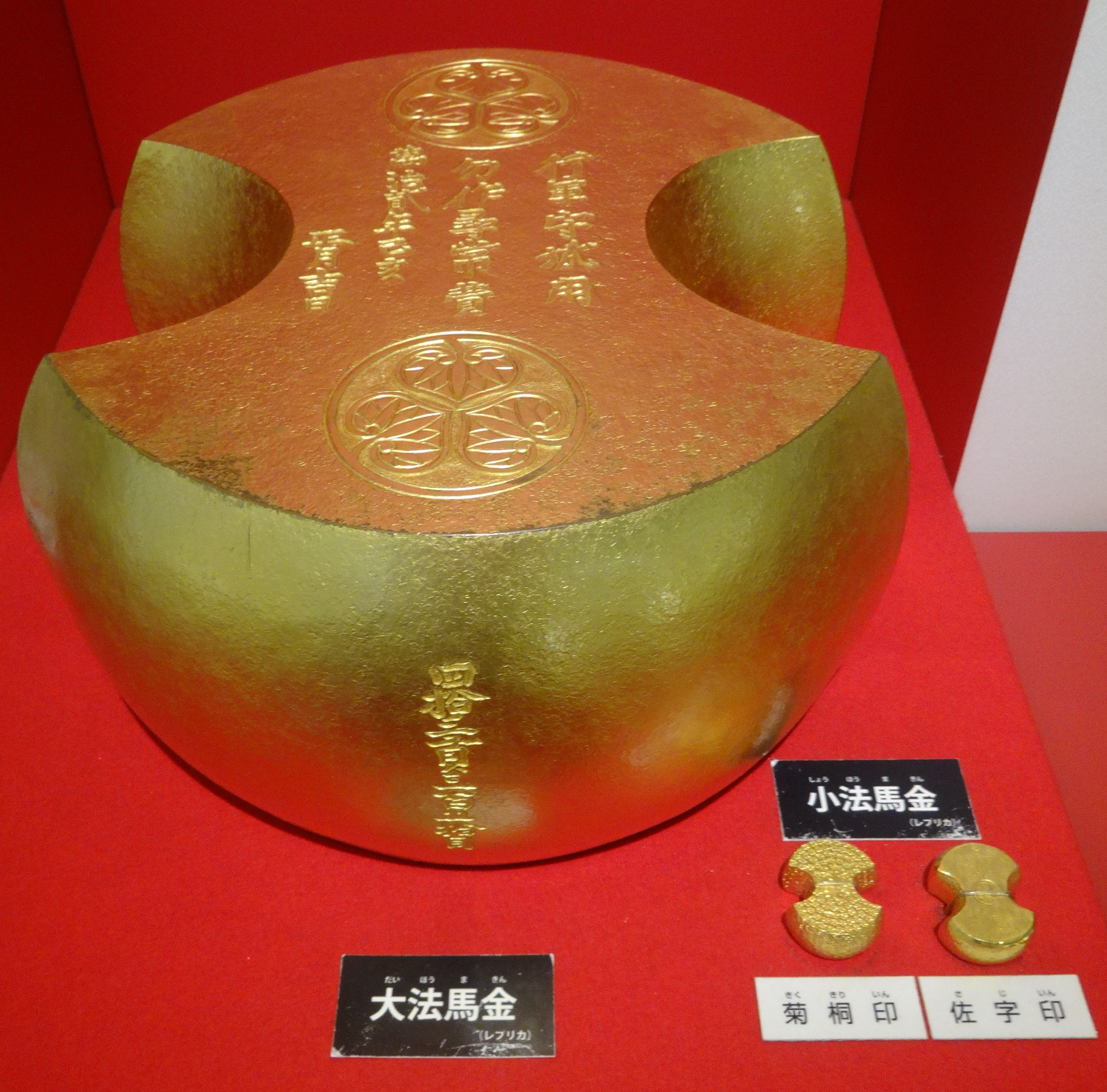 Weights made of gold, Edo Period.